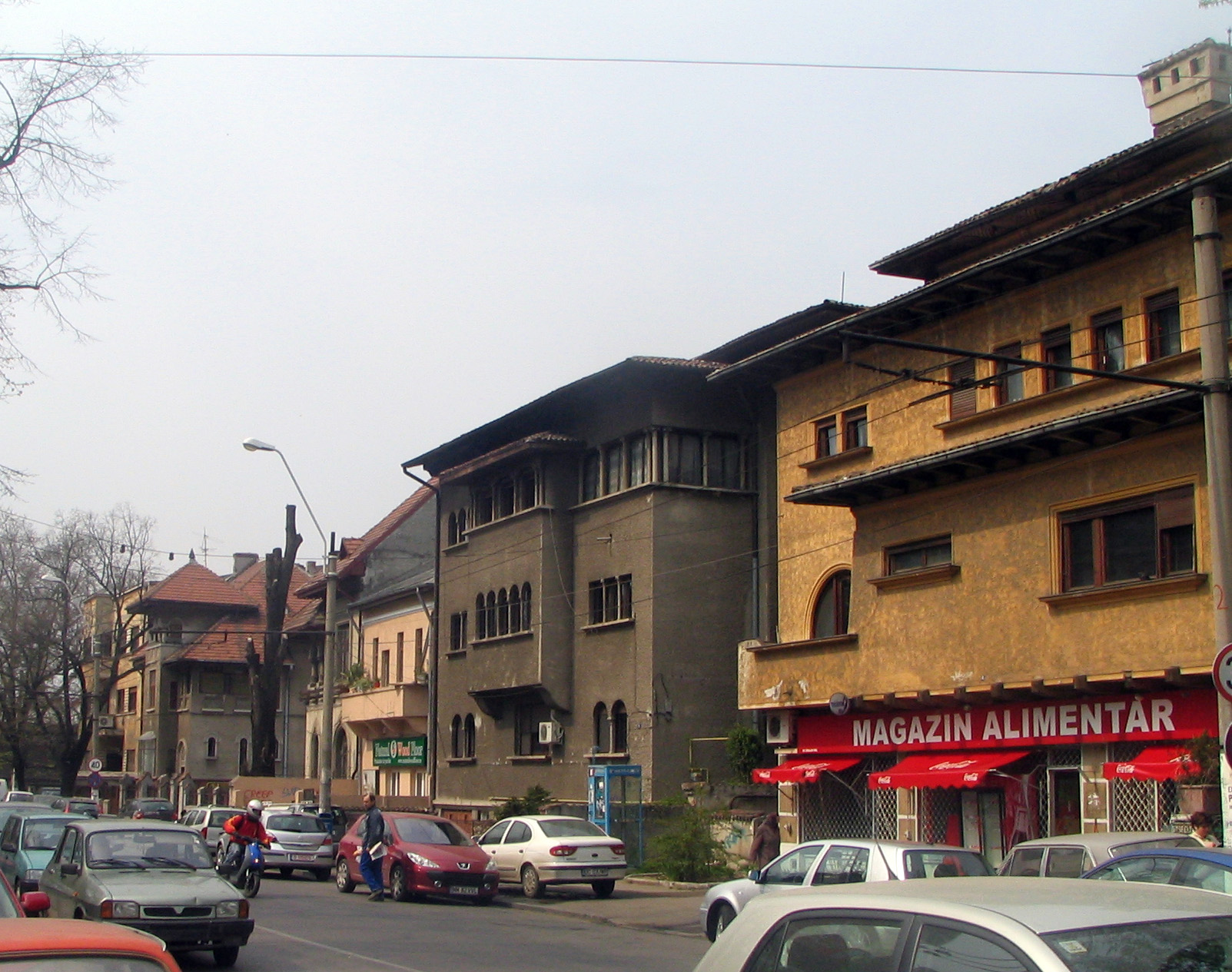 Houses in Cotroceni area, Bucharest